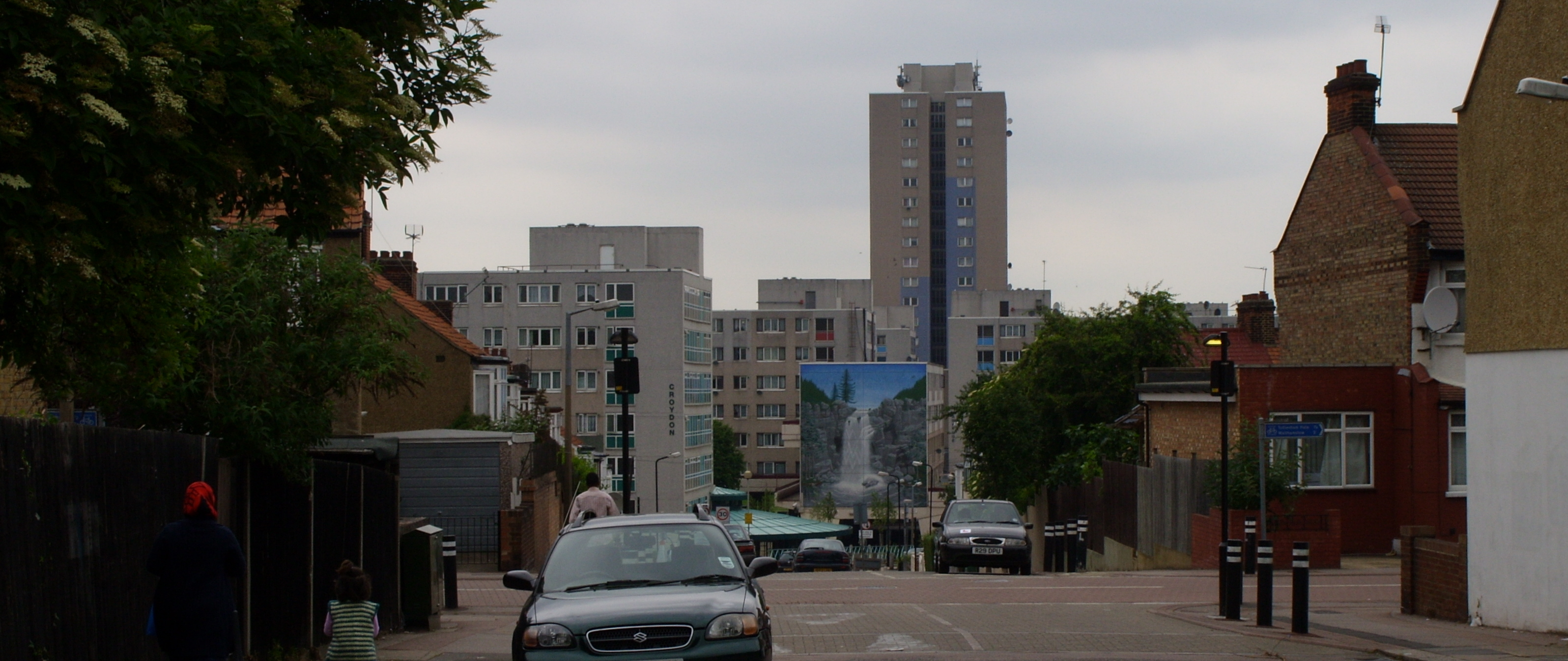 Entrance to Broadwater Farm, London N17